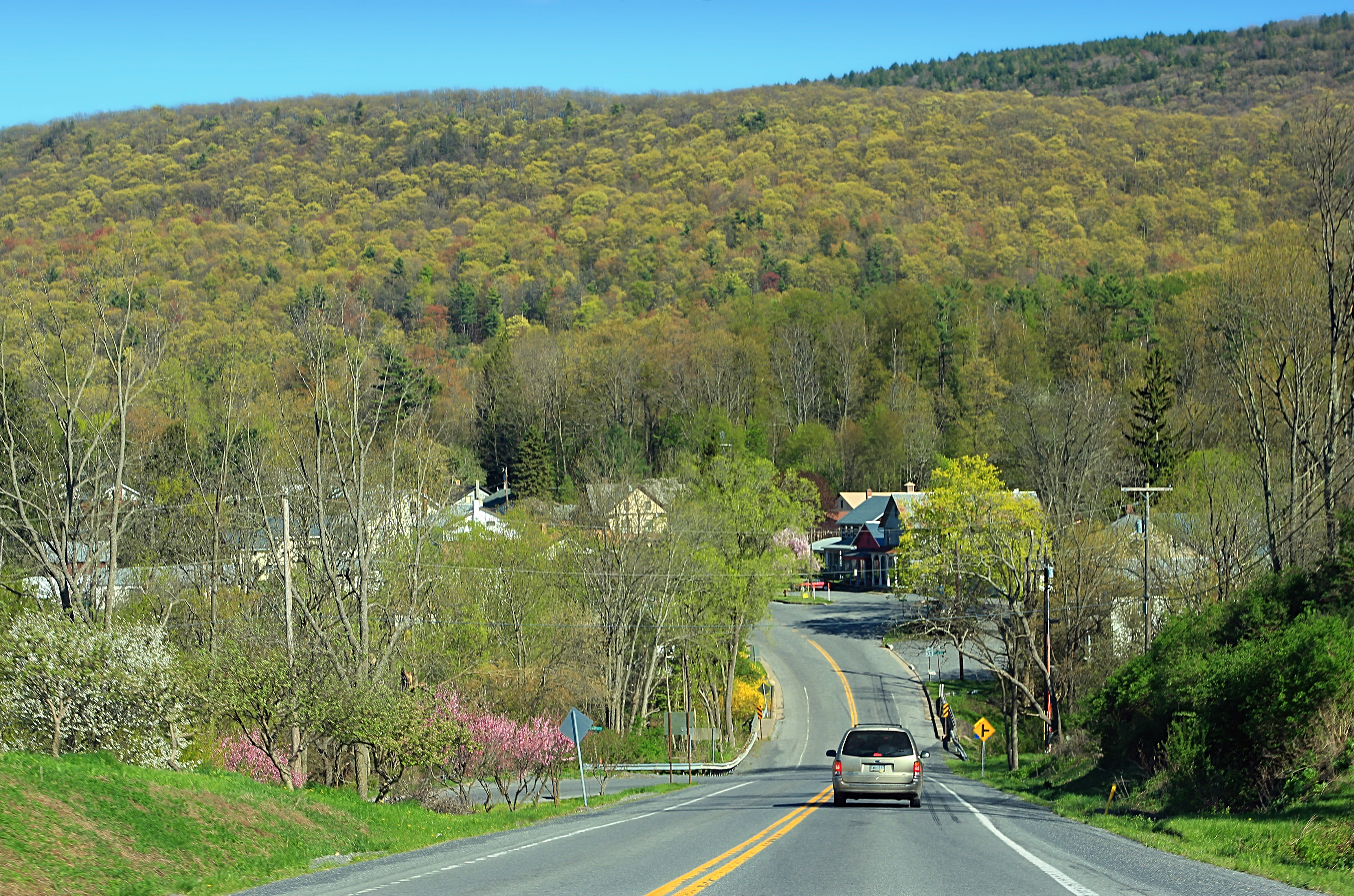 PA Route 45 near Woodward, Centre County.